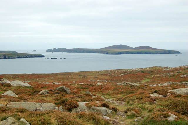 Ramsey Island seen from the coastpath east of St Davids Head